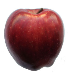 apple